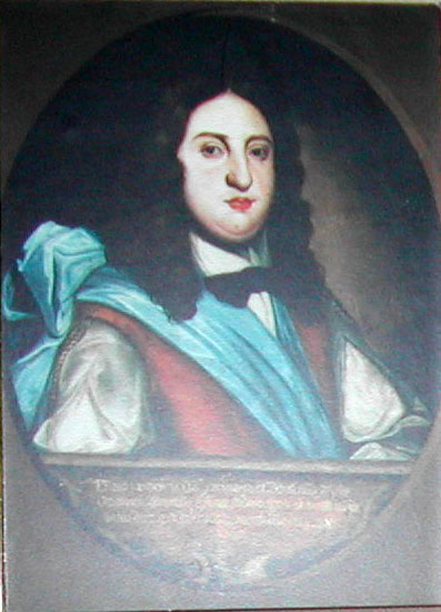 Enno Ludwig Cirksena, unsigned portrait. See this article on the image's restoration for further information (in German).